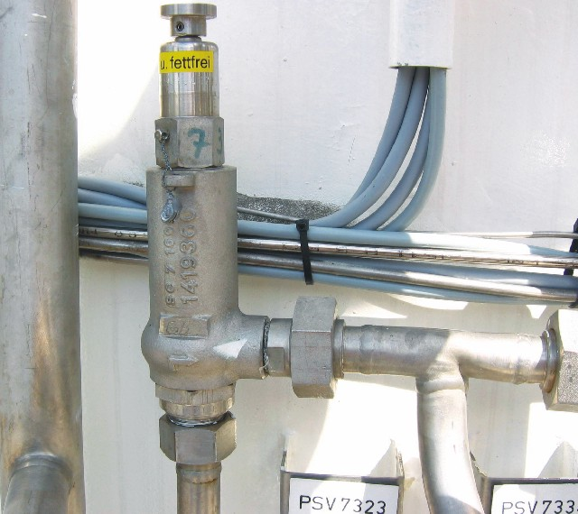 Oxygen-safetyvalve